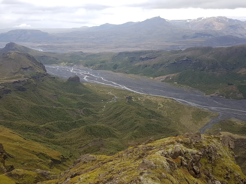 Godaland og Krossa